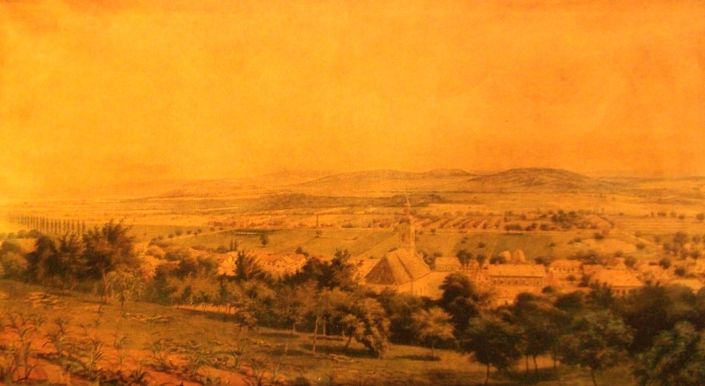 View of Dorog, Hungary in 1905